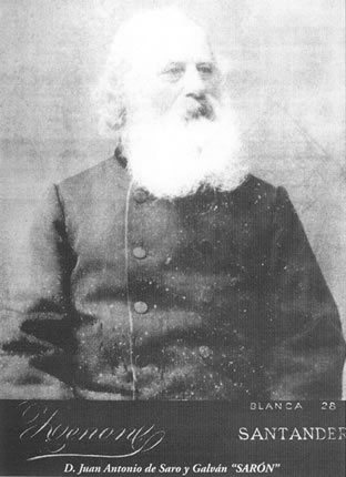 Antonio de Saro y Galvan, owner of the land where Saron is nowadays